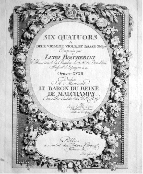 Boccherini, 6 quartettini Op. 26 [G.195-200] (1778). Title page Artaria's edition, 1781.